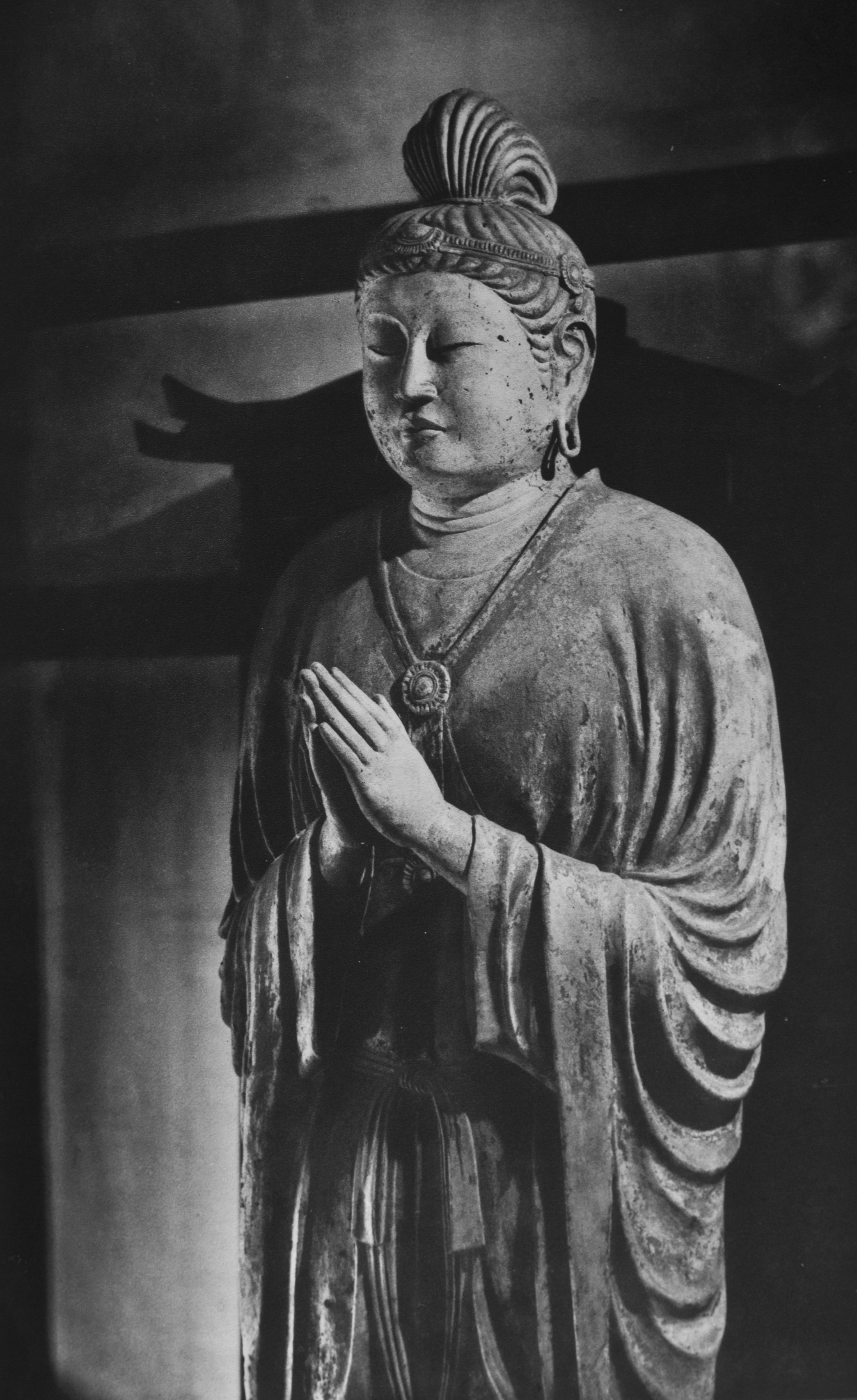 Todaiji, Nara, Japan